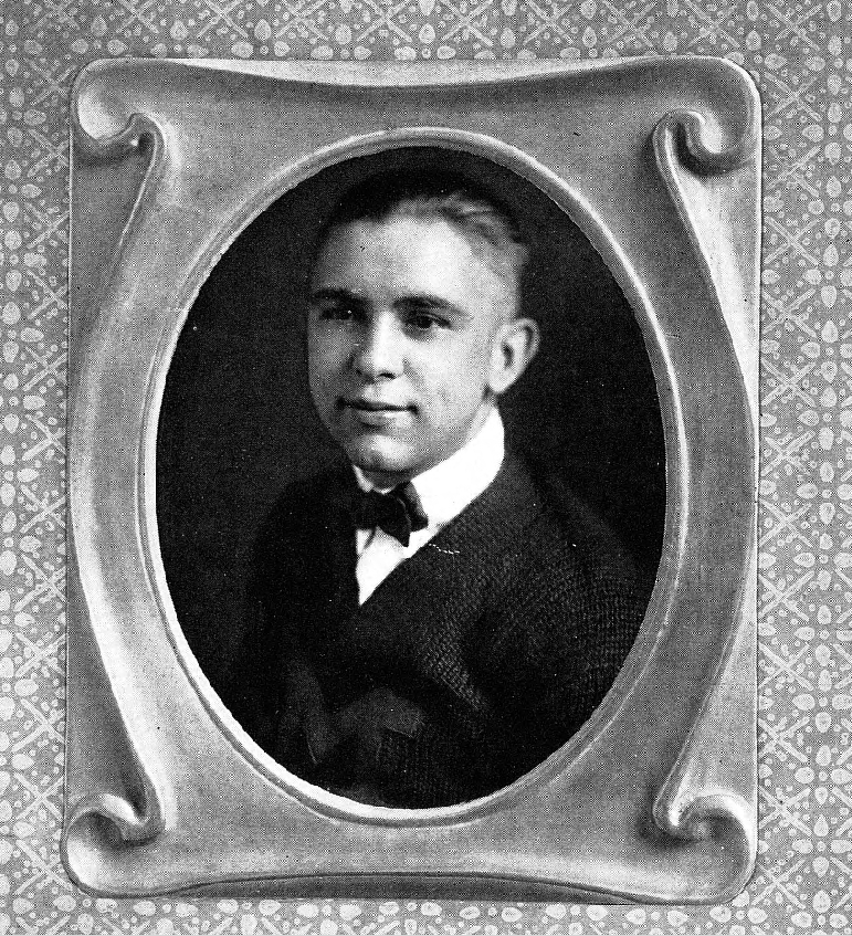 Photograph of Walter Wesbrook, captain of the 1920-1921 University of Michigan tennis team